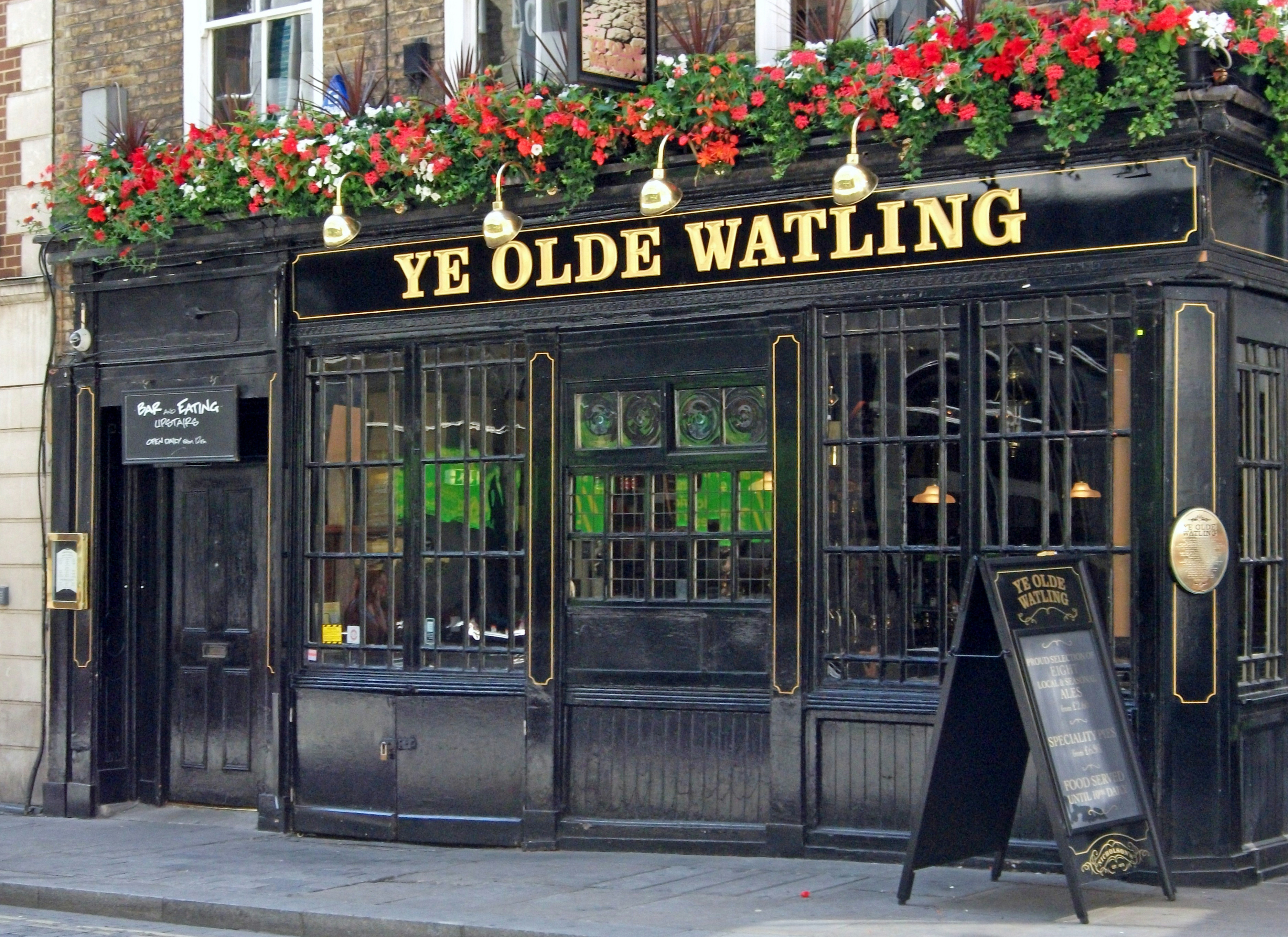 29 Watling Street EC4, not far from Mansion House tube. Not sure exactly how 'e olde' it is, but I am told there's been an inn here since at least the 17th century.